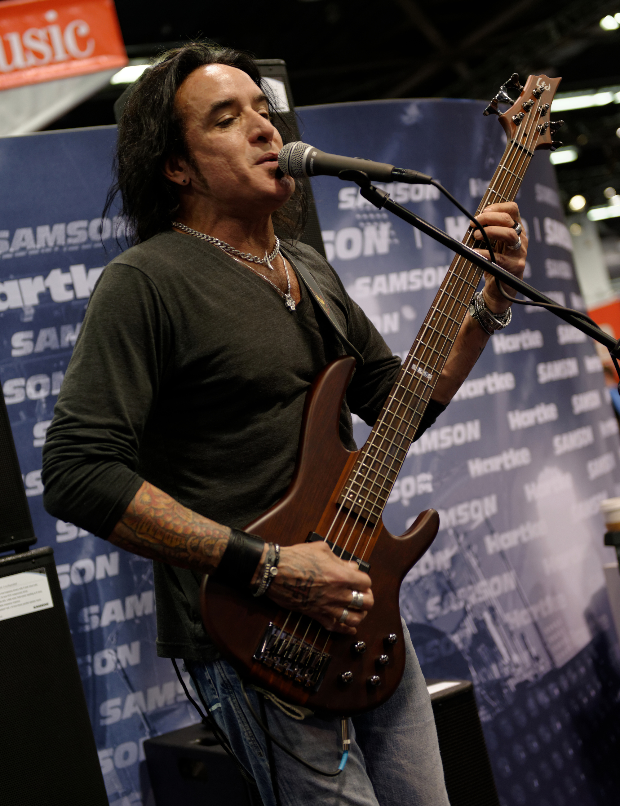 Marco Mendoza performing live at the Samson/Hartke booth. Day 1 (January 23rd, 2014) of the Winter NAMM Show in Anaheim California.